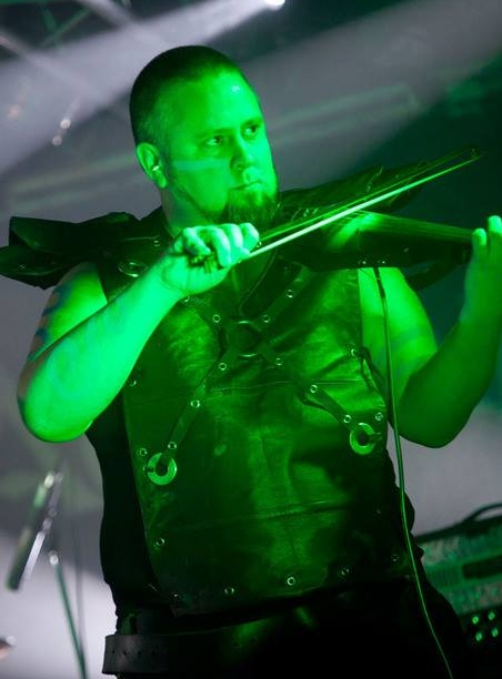 John Ryan, Santiago, Chile 2011